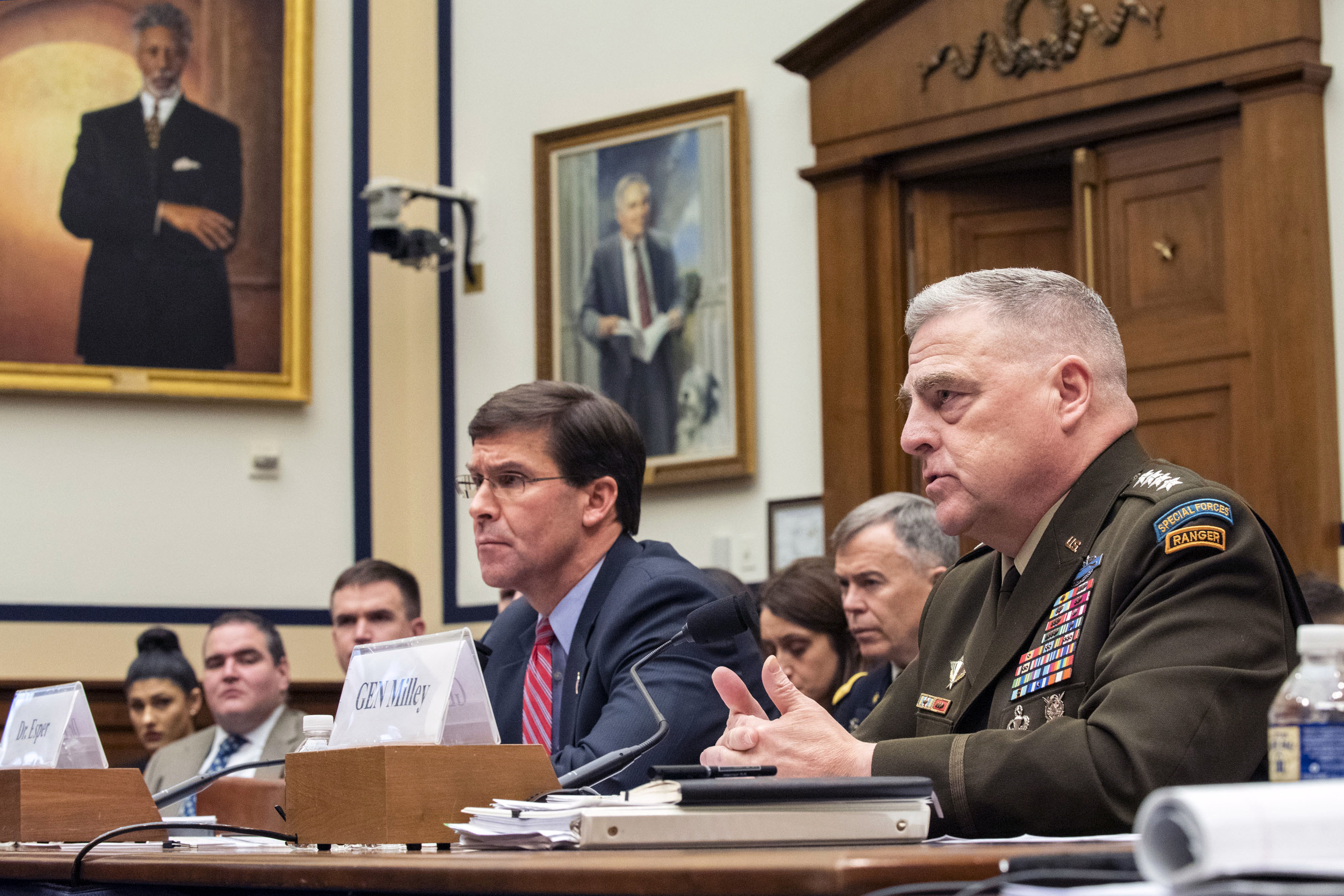 Defense Secretary Dr. Mark T. Esper and Army Gen. Mark A. Milley, chairman of the Joint Chiefs of Staff, testify at a House Armed Service Committee hearing on Syria and Middle East policy in Washington, Dec. 11, 2019.